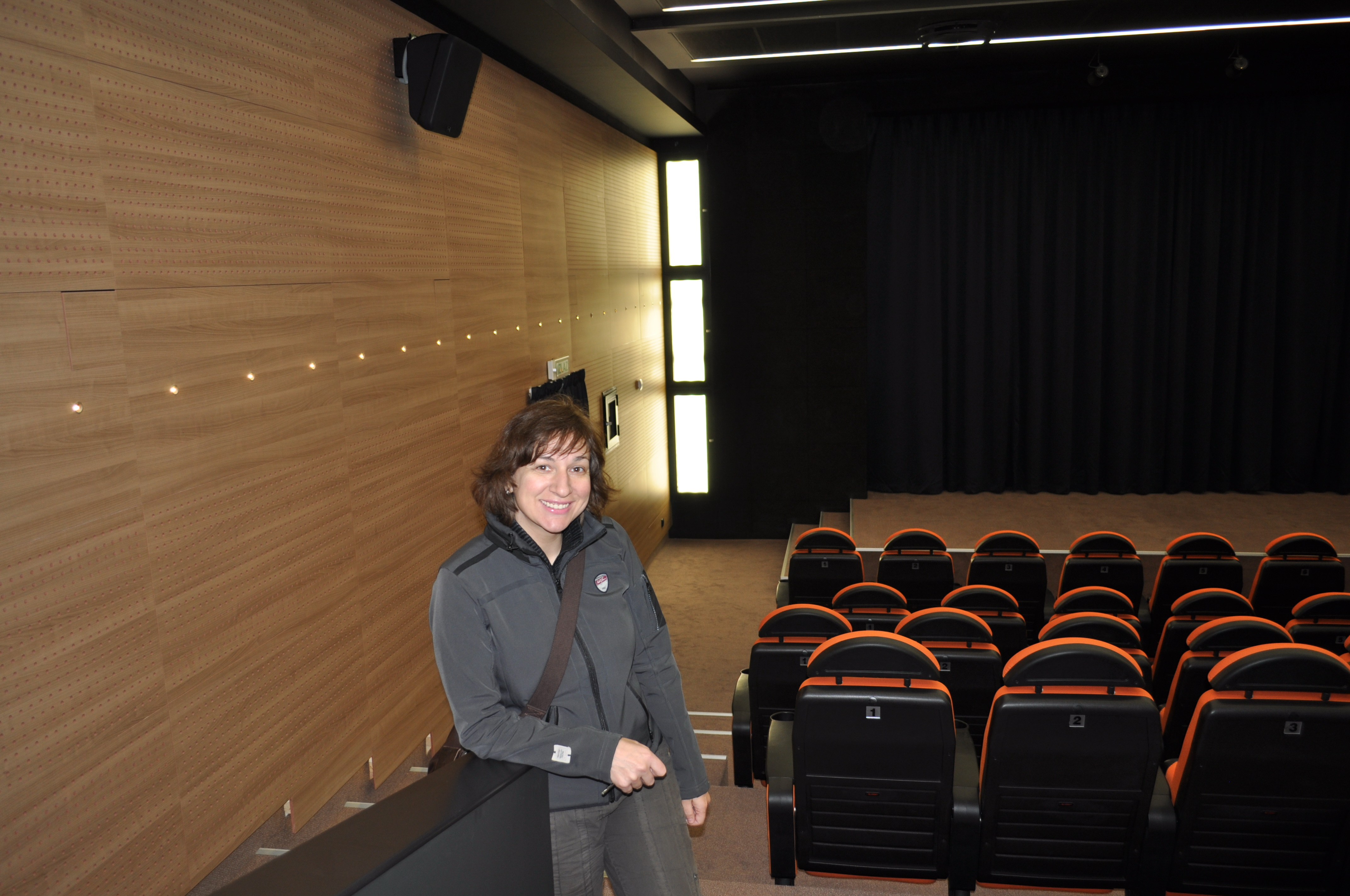 Enterijer bioskopa Fontana